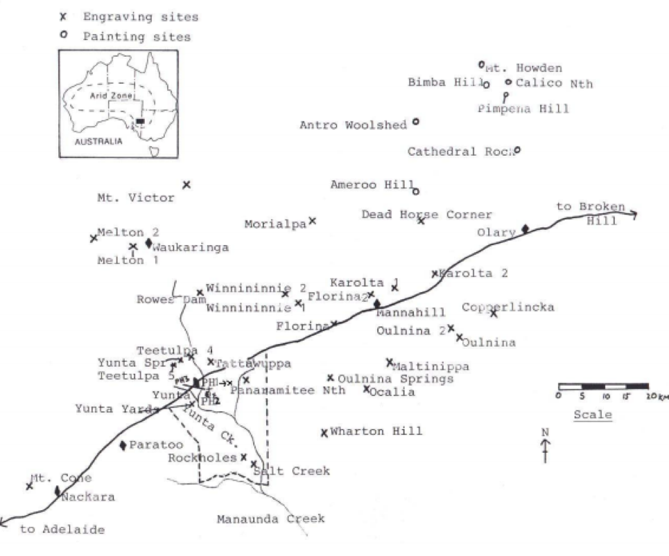 A map of rock art sites at Panaramitee sheep station, petroglyph sites are marked by crosses.